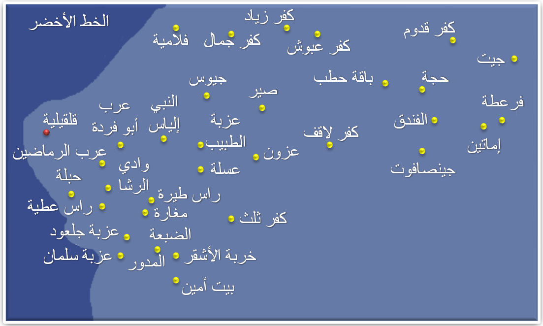 Self-made map showing the villages of the Governate of Qalqilyah. Names in Arabic.